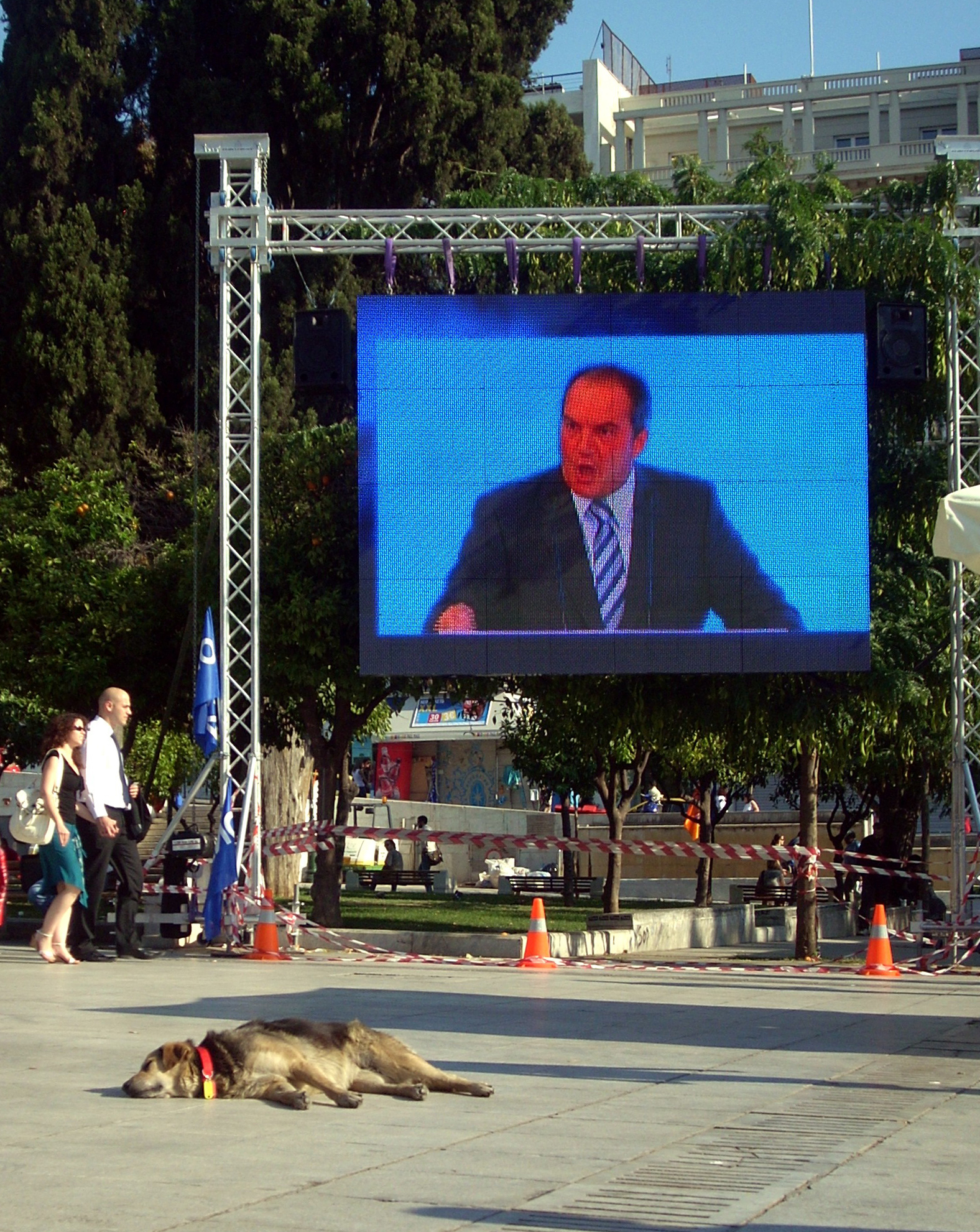 Political campaign of partie New Democracy before the European Parliament election in Greece 2009. Syntagma Square in Athens